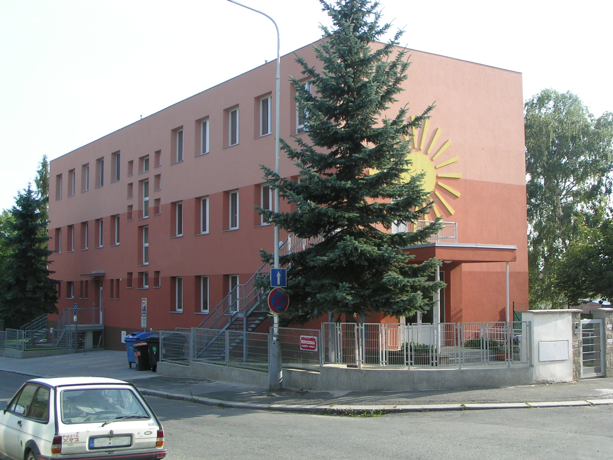 Prague, Hloubětín - KG Sadská, a front view (edited: without VRP)